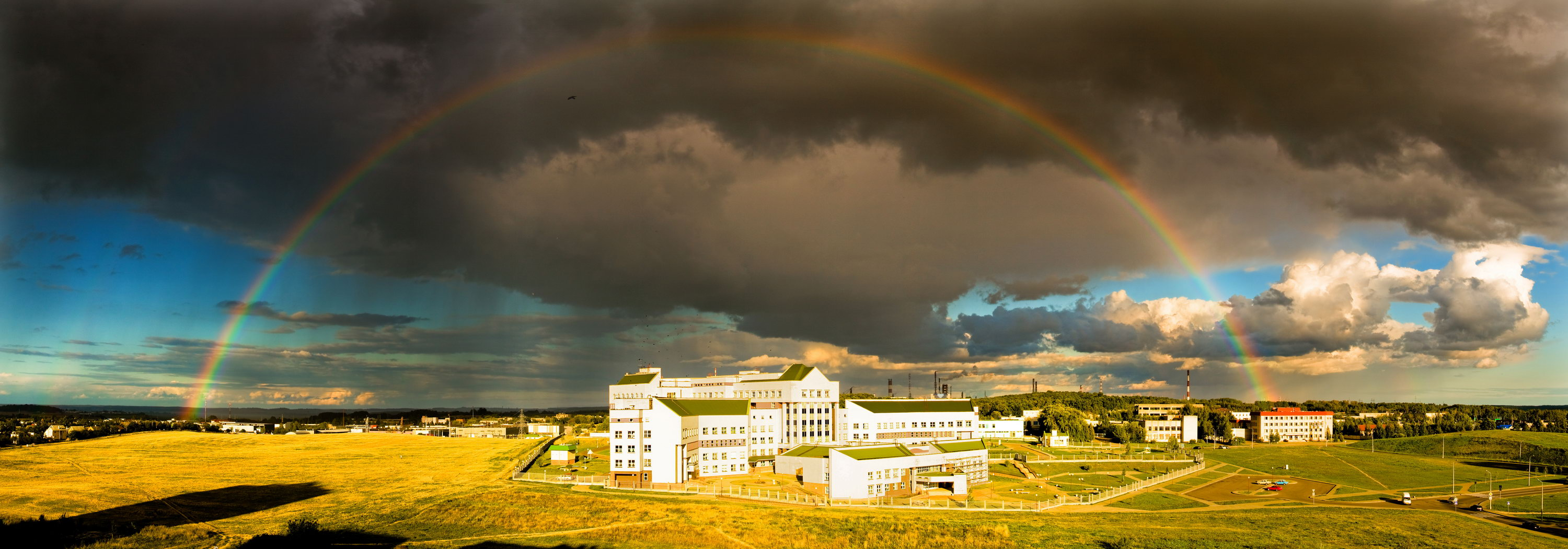 Rainbow after the rain. Grodno, Belarus.